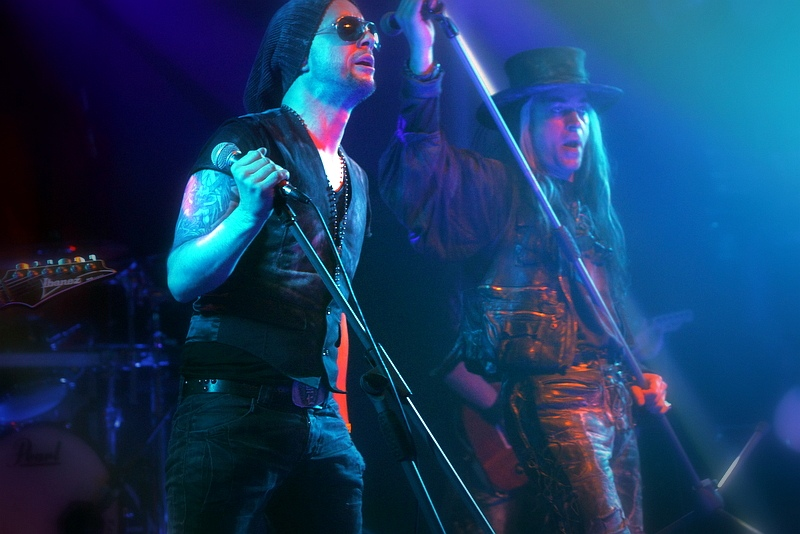 Adam Nergal Darski and Carl McCoy douring Fields of the Nephilim gig, Katowice, Mega Club, 6.05.2011